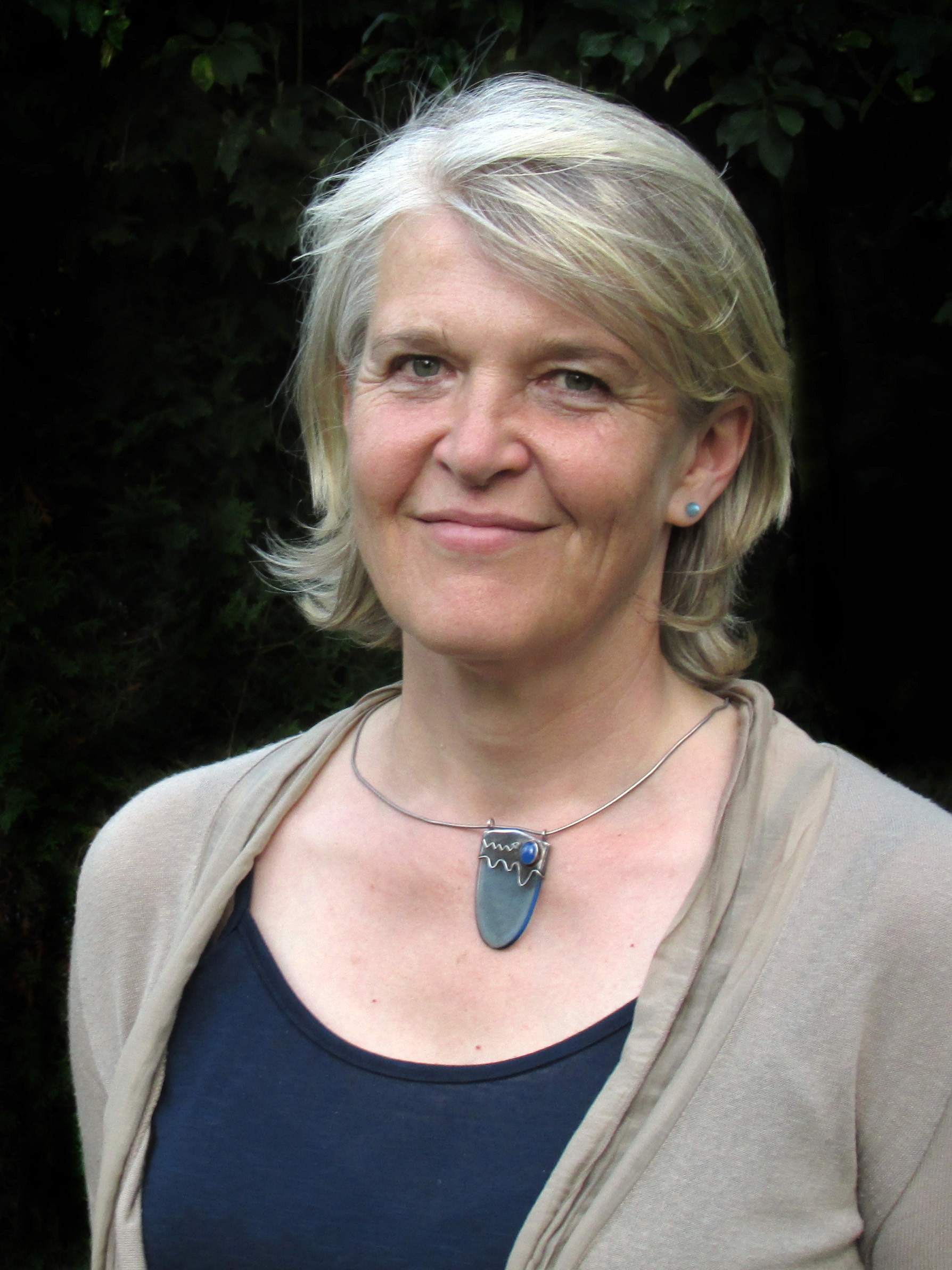 German psychologist